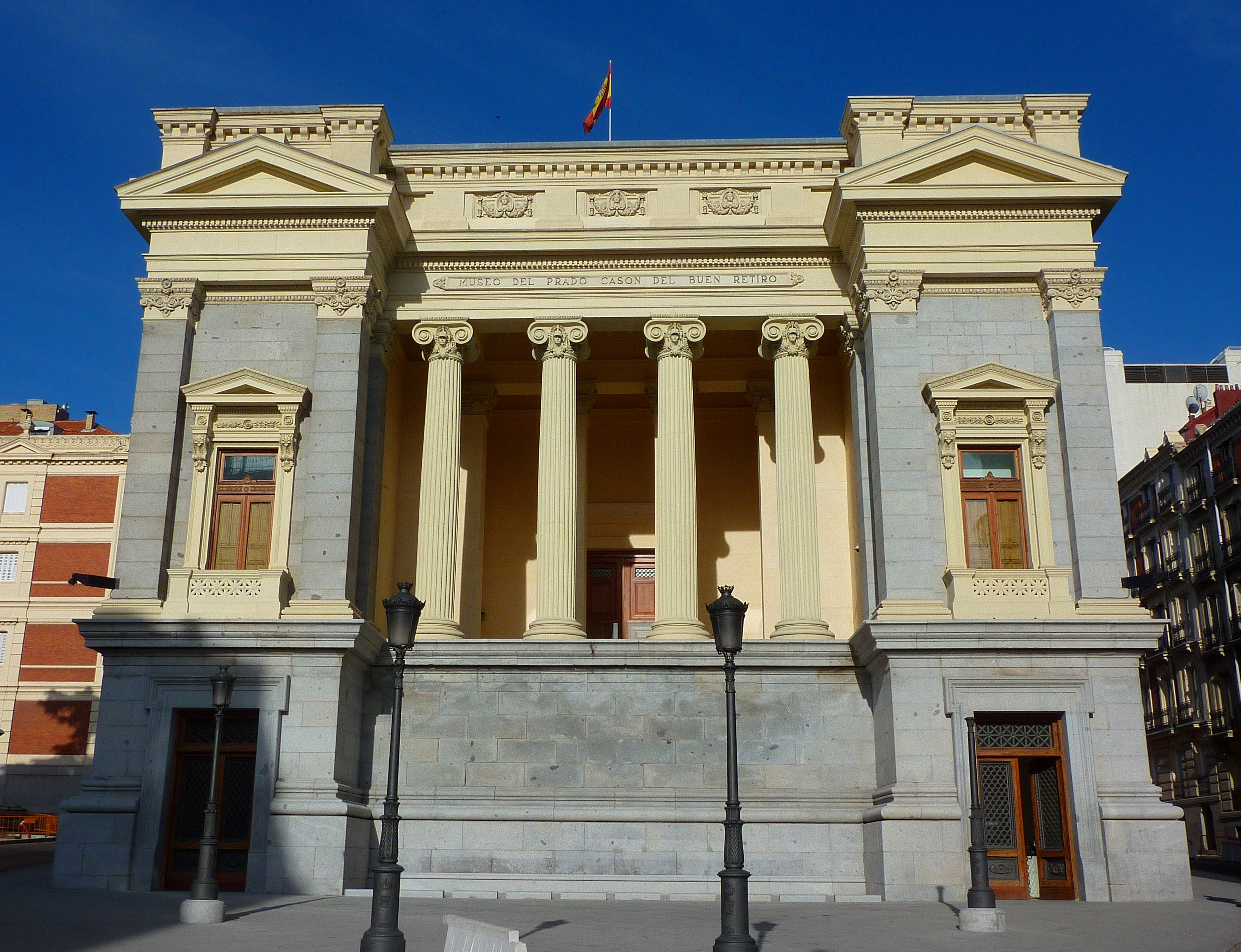 West façade of the Casón del Buen Retiro — in the Prado Museum complex, Madrid.